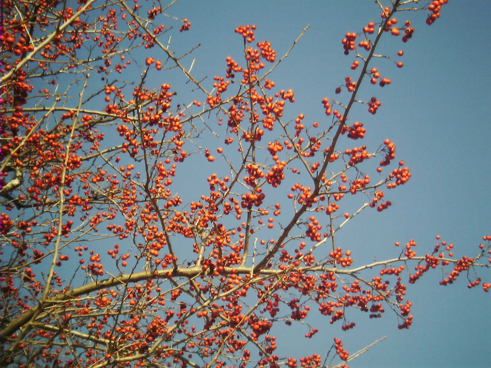 짧은설명 Fruit of Crataegus pinnatifida. Taken in Gyeonggi Provincial Museum, Yongin, in November 2005.